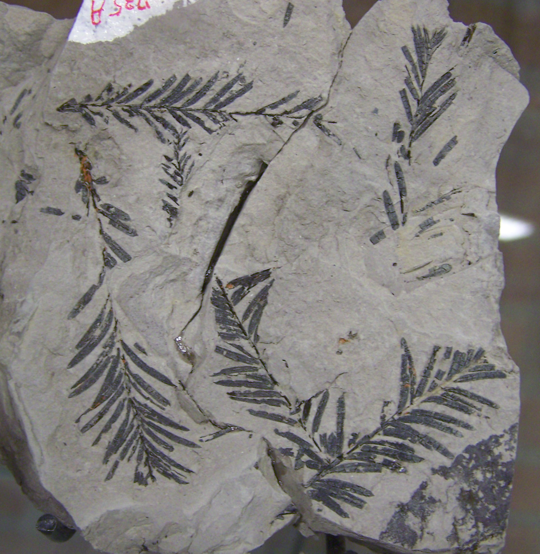 Fossil branches of the extinct conifer species Taxodium dubium. Rock is about 18 cm big. Miocene age. Collection of the Universiteit Utrecht